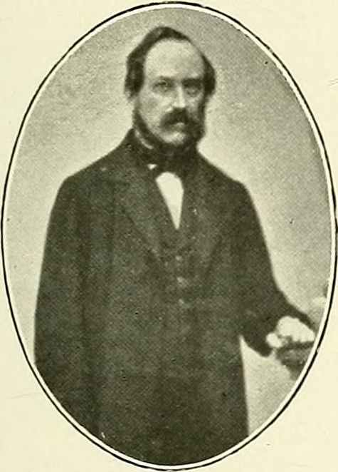 Portrait of the German botanist August von Krempelhuber (1813-1882)